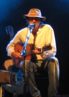 Brazilian folk music singer Almir Sater, during his performance.